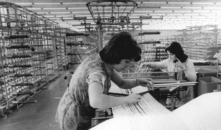 Expansions reed device